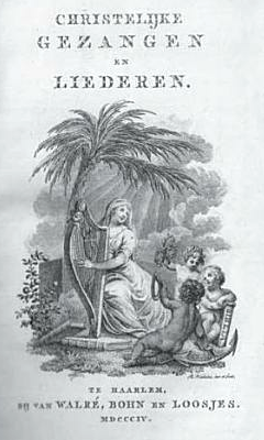 Christian hymns and songs, including 150 hymns and songs with a title vignette by Reinier Vinkeles, published by Jan van Walré, Francois Bohn, and Adriaan Loosjes Pz. The preface is dated 1803 and is signed by Klaas van der Horst, Petrus Loosjes Az., Barend Hartman van Groningen, Matthias van Geuns Jz, M. Bodisco and Adriaan Loosjes Pz, who were all teachers in the Haarlem Baptist church (see Doopsgezinde kerk, Haarlem)